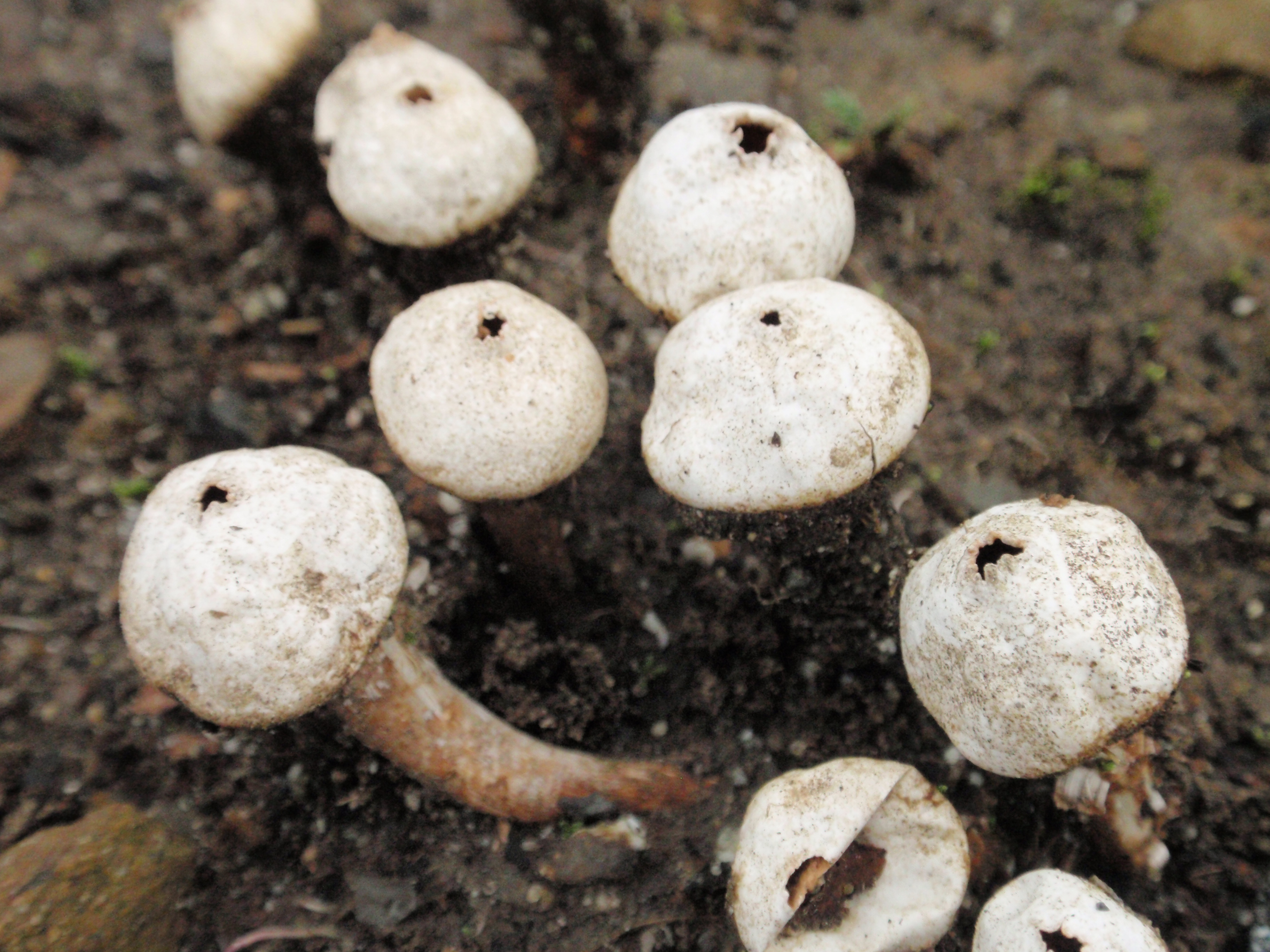 An unidentified species of Tulostoma. Specimens photographed in San Mateo, California, USA.